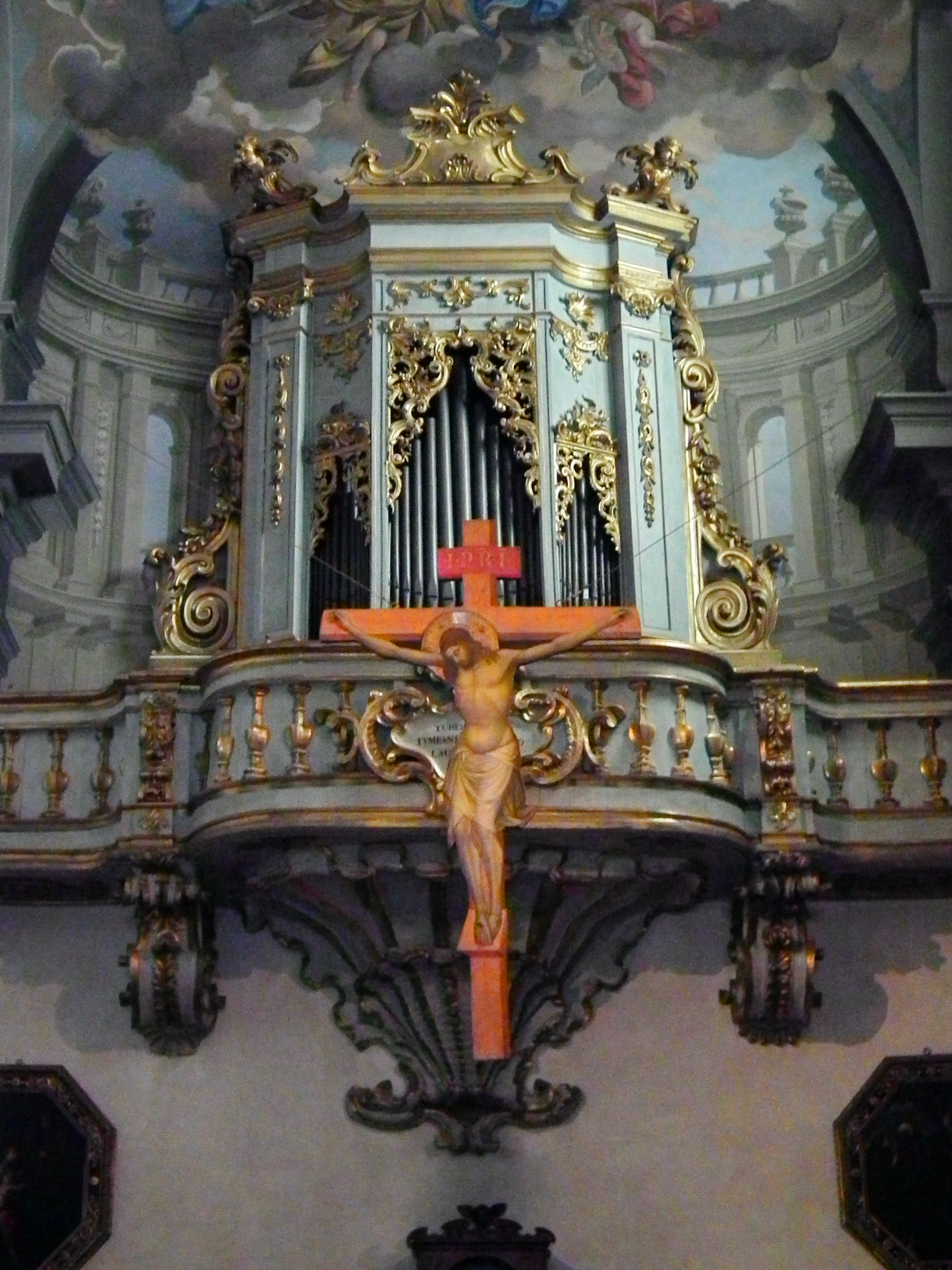 San Giuseppe, Florence, Italy